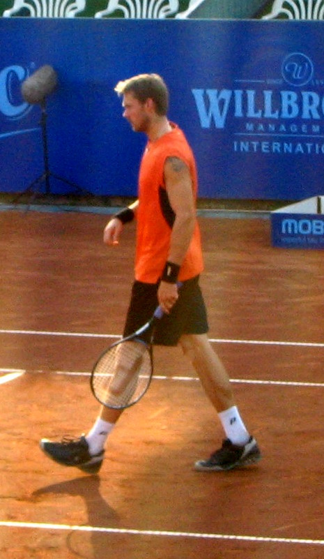 Swedish tennis player Johan Brunstrom at the 2008 BCR Open Romania in Bucharest